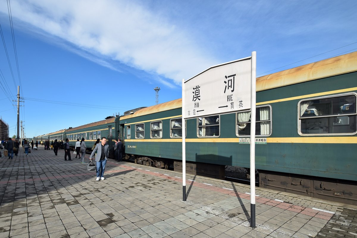 6245/6246 22B Train at Mohe Railway Station (northernmost passenger railway station in China)